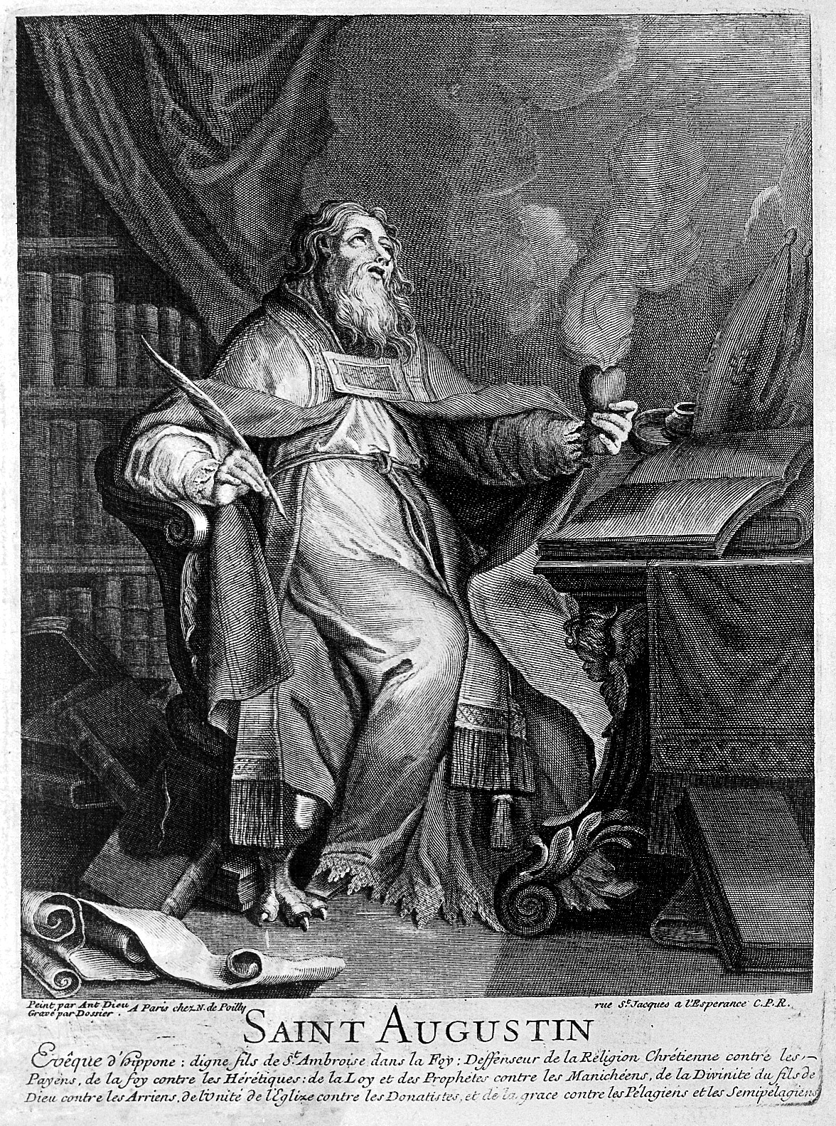 Saint Augustine of Hippo. Line engraving by N. Dossier after A. Dieu. Iconographic Collections